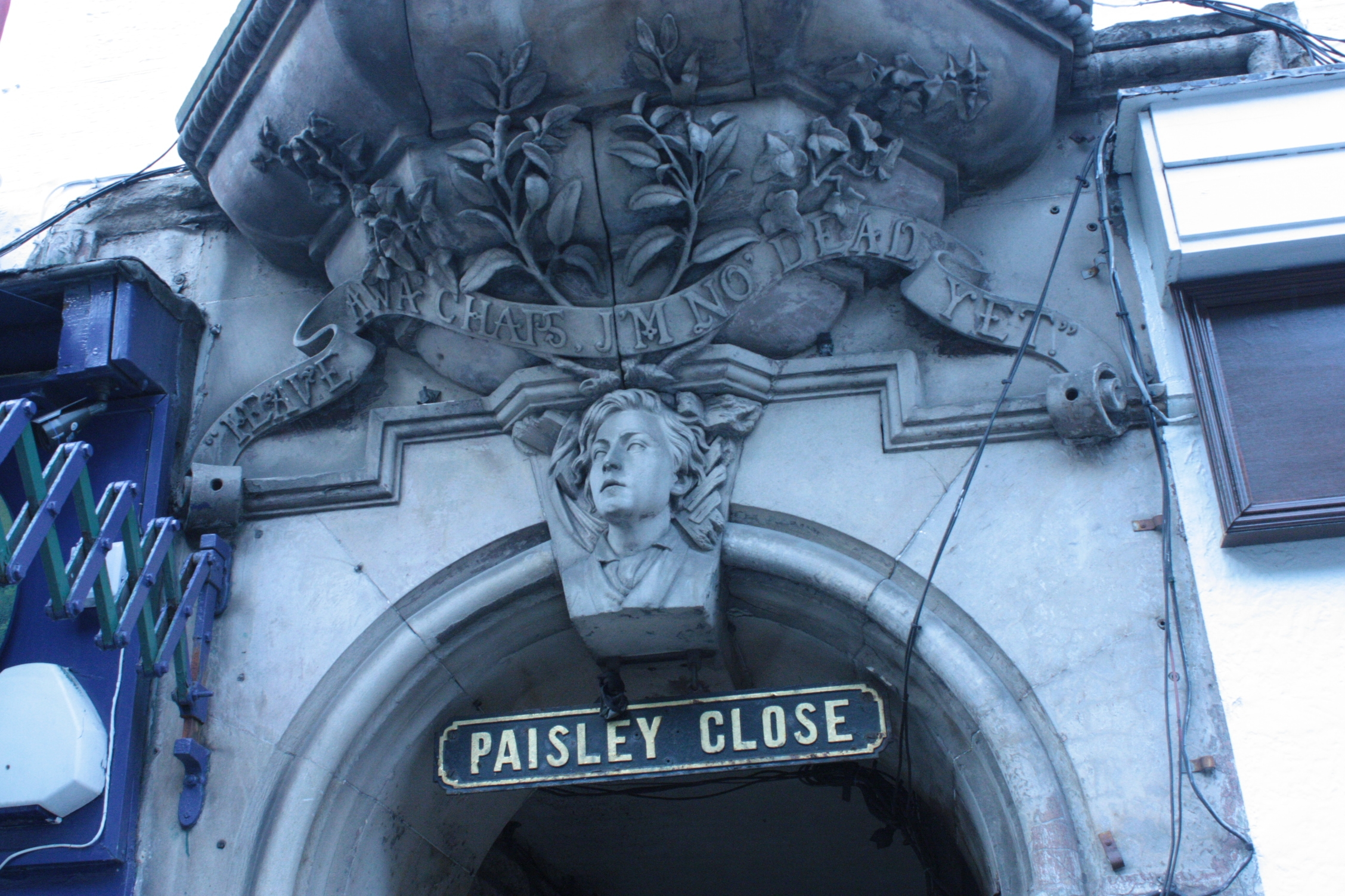 sculpted head of a 14 year old boy buried on the site in a tenement collapse by John Rhind